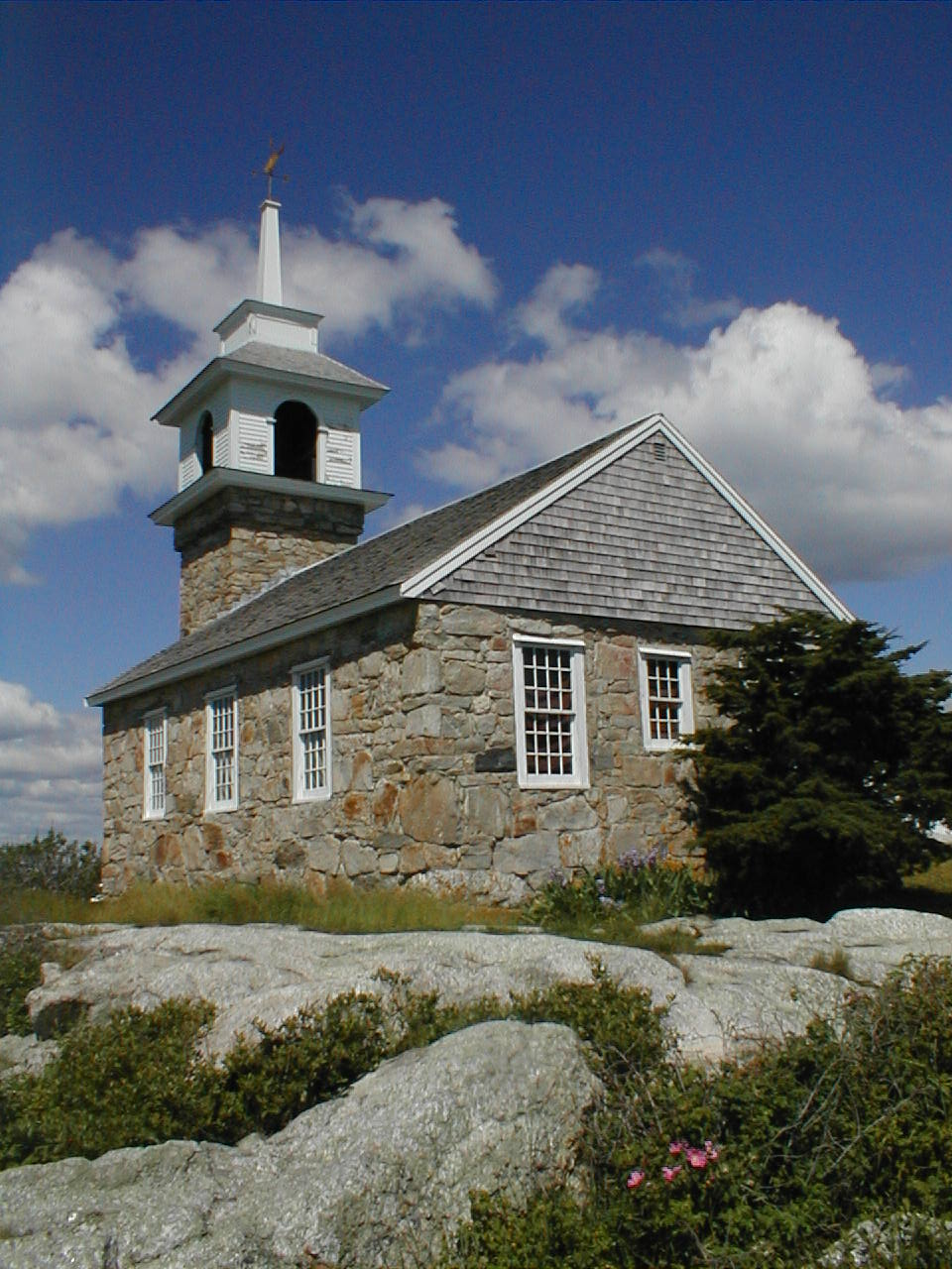 Chapel on Star Island, Isles of Shoals, New Hampshire, USA. Photograph by Rick Holt